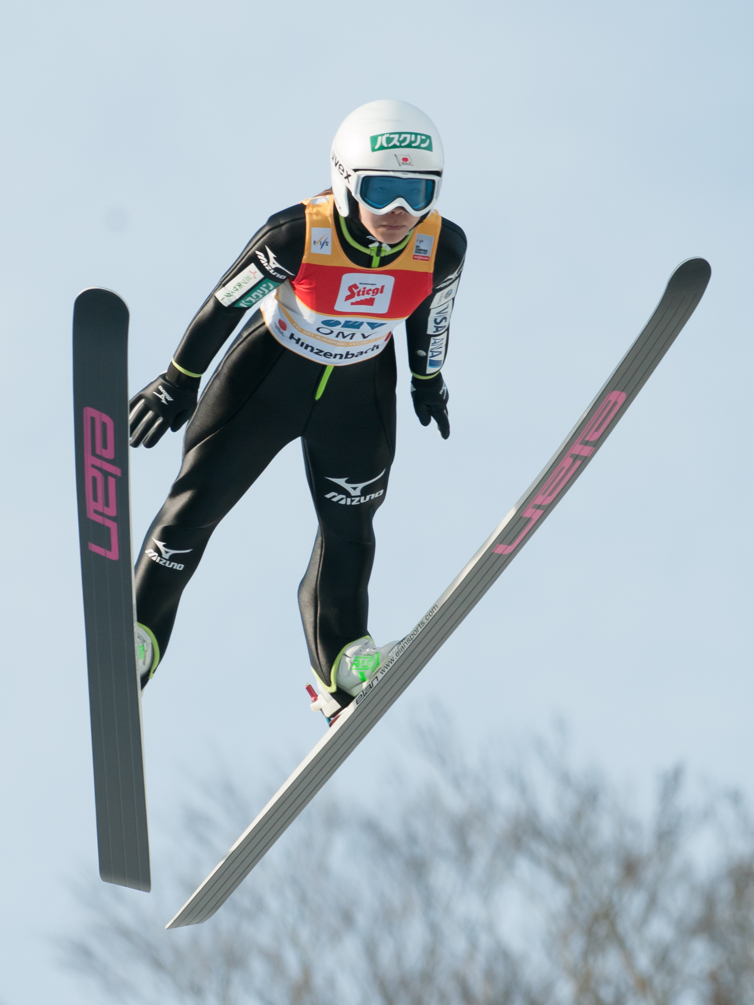 FIS Ski Jumping World Cup Ladies Hinzenbach 2016-02-07